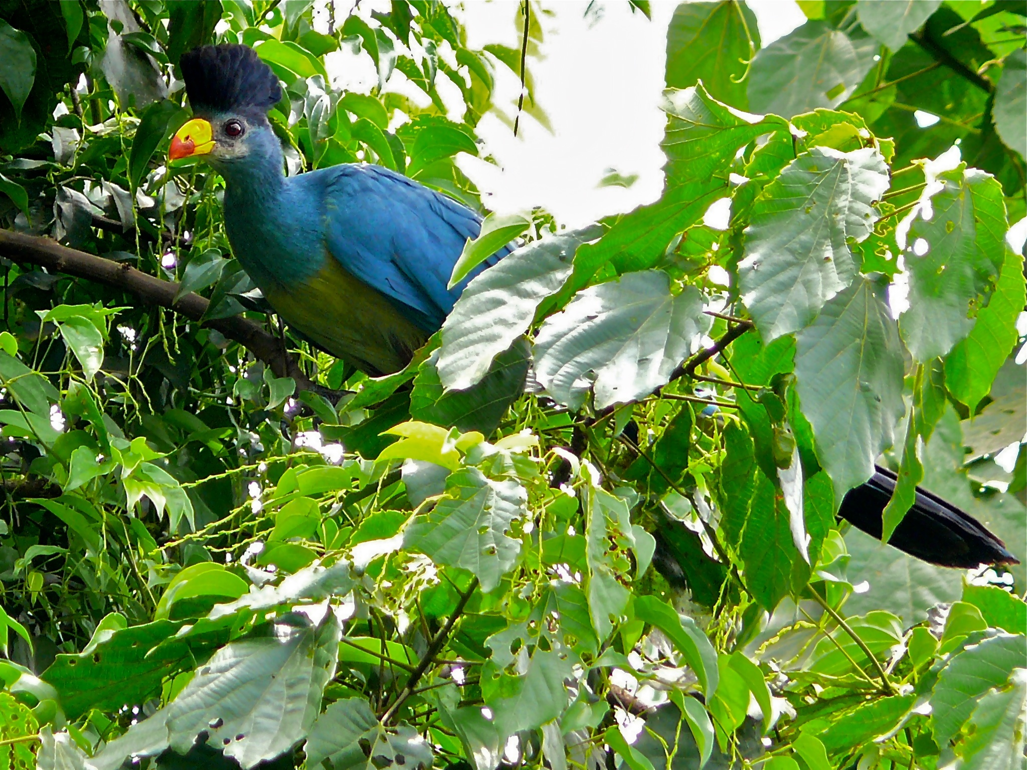 Bigodi Wetland Sanctuary, UGANDA